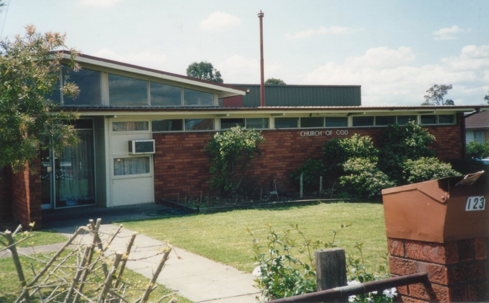 Canley Heights Church of God